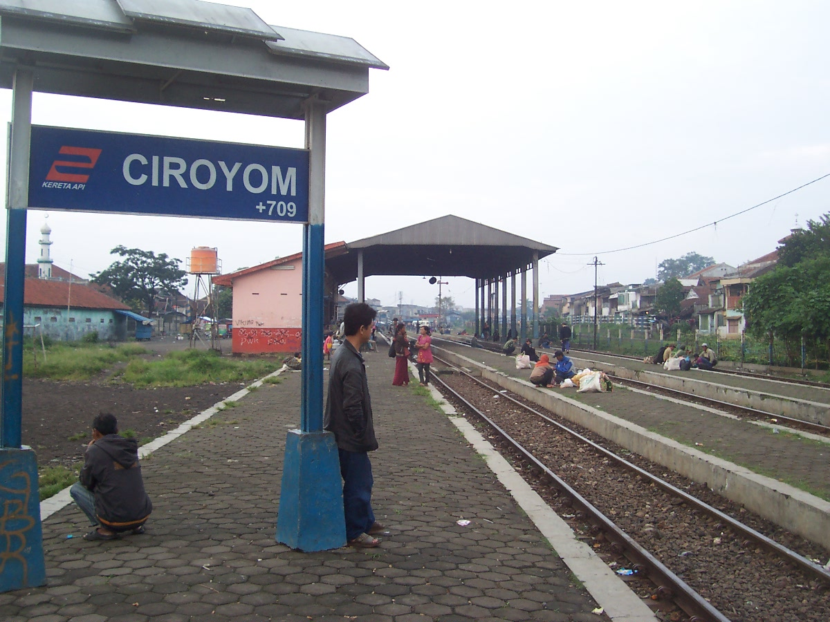 Ciroyom Train Station